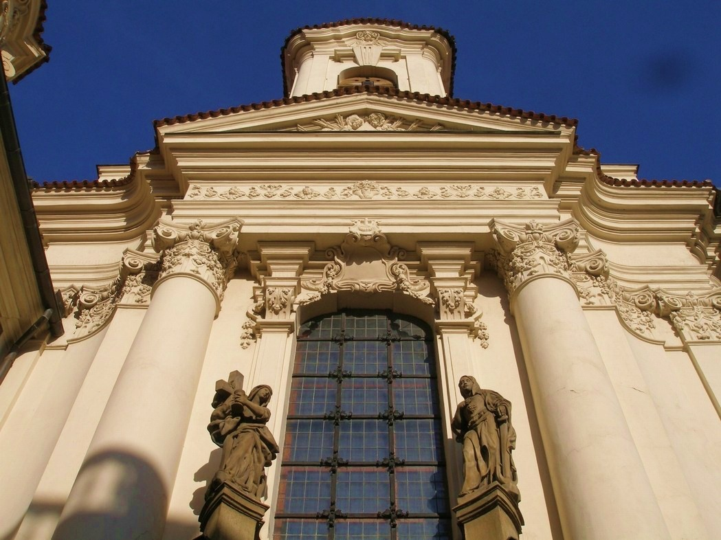 Orthodox church of ss. Kyril and Method, Prague, Czechia